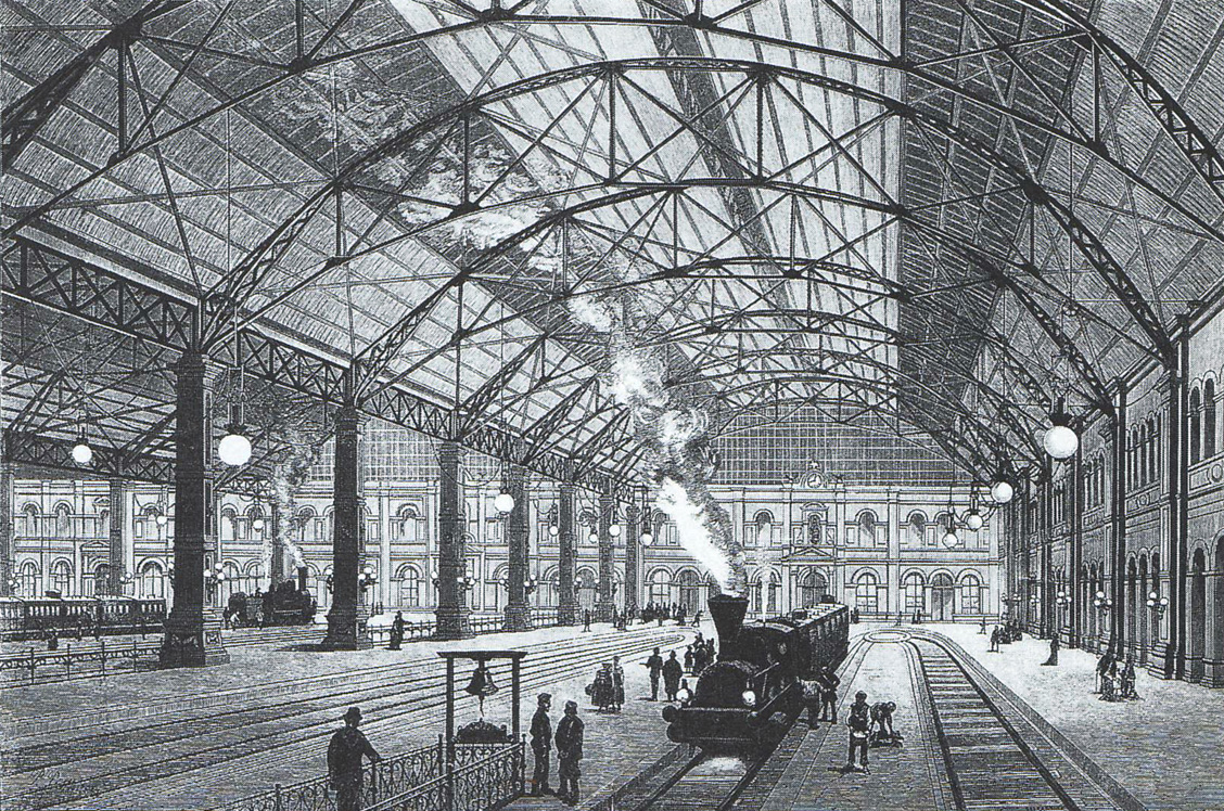 Tracks in the hall of the old Munich Central station. The hall had been erected between 1879 and 1882 by MAN-Werk Gustavsburg. They had been destroyed in WWII.